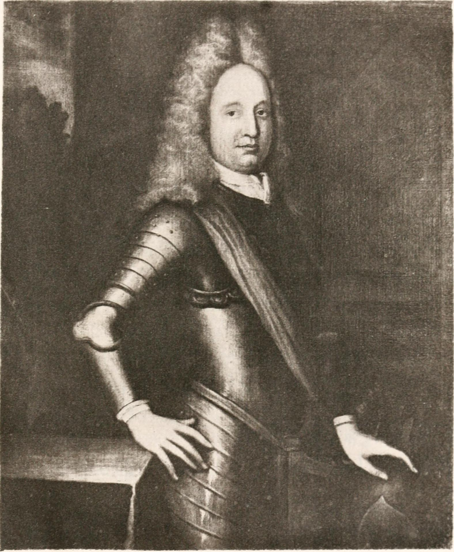 Samuel Vetch Title: The founders; portraits of persons born abroad who came to the colonies in North America before the year 1701, with an introduction, biographical outlines and comments on the portraits Year: 1921 (1920s) Authors: Bolton, Charles Knowles, 1867-1950 Subjects: Portraits, American United States -- History Colonial period, ca. 1600-1775 Biography Publisher: (Boston) The Boston athenaeum Text Appearing Before Image: or there were six shipsbroken and cast away; but God was pleased to make out his promiseto me, for none of the ships he commanded were lost. He served as governor of Nova Scotia in 1710-1712,1715-1717, and tried to be generous and just as an administrator.It has been said, however, that all the troubles of Vetchsadministration are to be ascribed to that difference in lan-guage which made him harsh, and that difference in faithwhich made him bitter. Finally, being reduced to thelast extremity of necessity, he died, 30 April, 1732, aprisoner for debt, in the Kings bench, London, and wasburled at Southwark the next day. His only child, Alida,married Samuel Bayard, nephew and secretary of GovernorStuyvesant. Vetch had many of the elements of a greatleader, but circumstances. Inherited convictions, and misfor-tune conspired to neutralize the efifect of his remarkablepowers. An Acadian Governor, by James Grant Wilson. International Review, Novem-ber, i88i. Memoirs of Mr. William Veitch. 334 Text Appearing After Image: SAMUEL VETCH1668-1722 (1335) TH?^ NEW YORKPUBLIC LIBRARY y^ NOV 3 - 1939